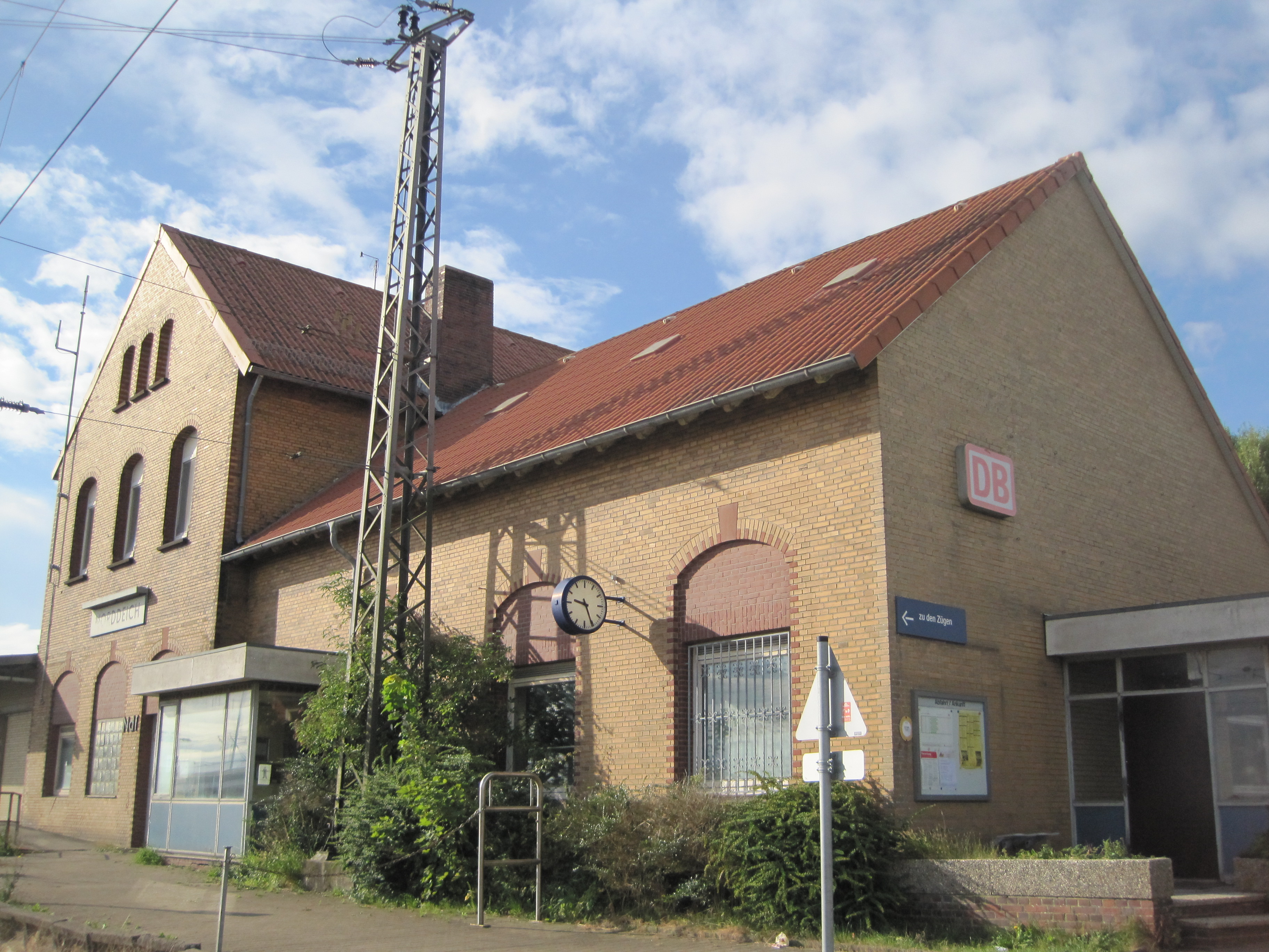 Train station Norddeich, Norden, Germany check usage Address Hafenstraße 1 26506 Norddeich Germany Date26 August 2012SourceOwn work. (→ weitere 1,826 Bilder von mir in der Galerie)AuthorStefan FlöperPermission (Reusing this file) cc-by-sa-3.0, gfdl 1.2+